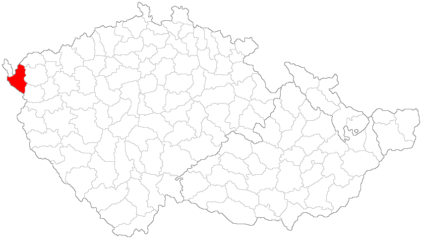 Political district of Cheb in 1900